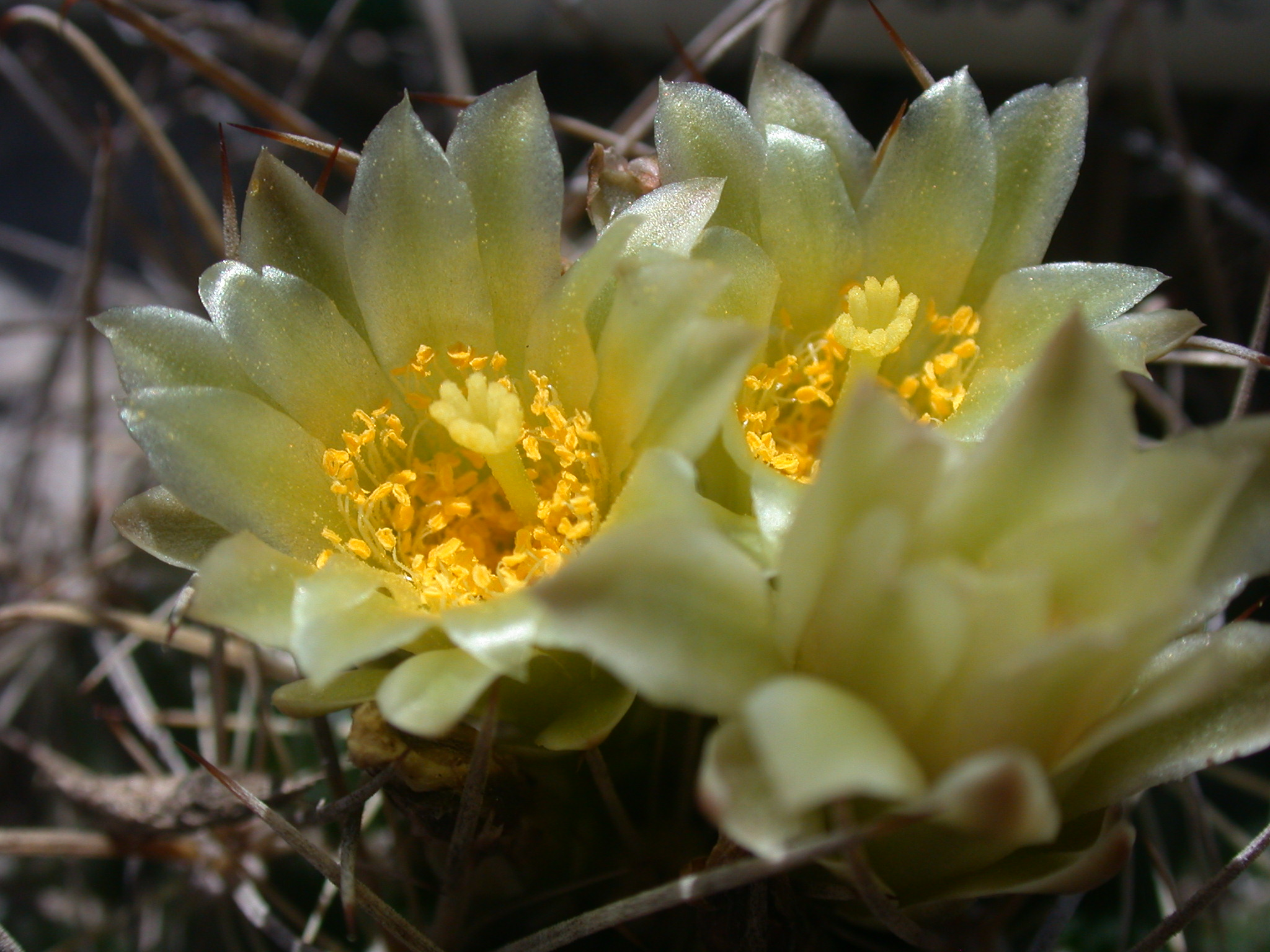 Tobusch fishhook cactus flowers. Photo credit: Chris Best, USFWS